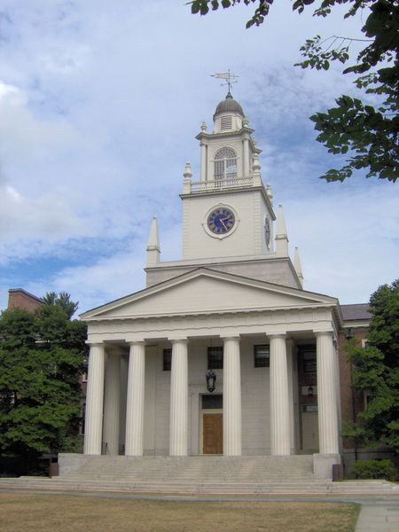 Samuel Phillips Hall at Phillips Academy Andover in Andover, MA.